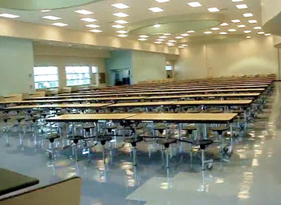 Author: Fredler Brave Date: August 15th 2009 (Taken) For use on Miami Beach Senior High School wiki page. Summary Author: Fredler Brave Date: August 15th 2009 (Taken) For use on Miami Beach Senior High School wiki page.